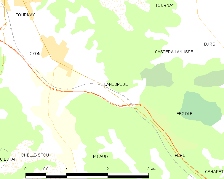 Map of French municipality